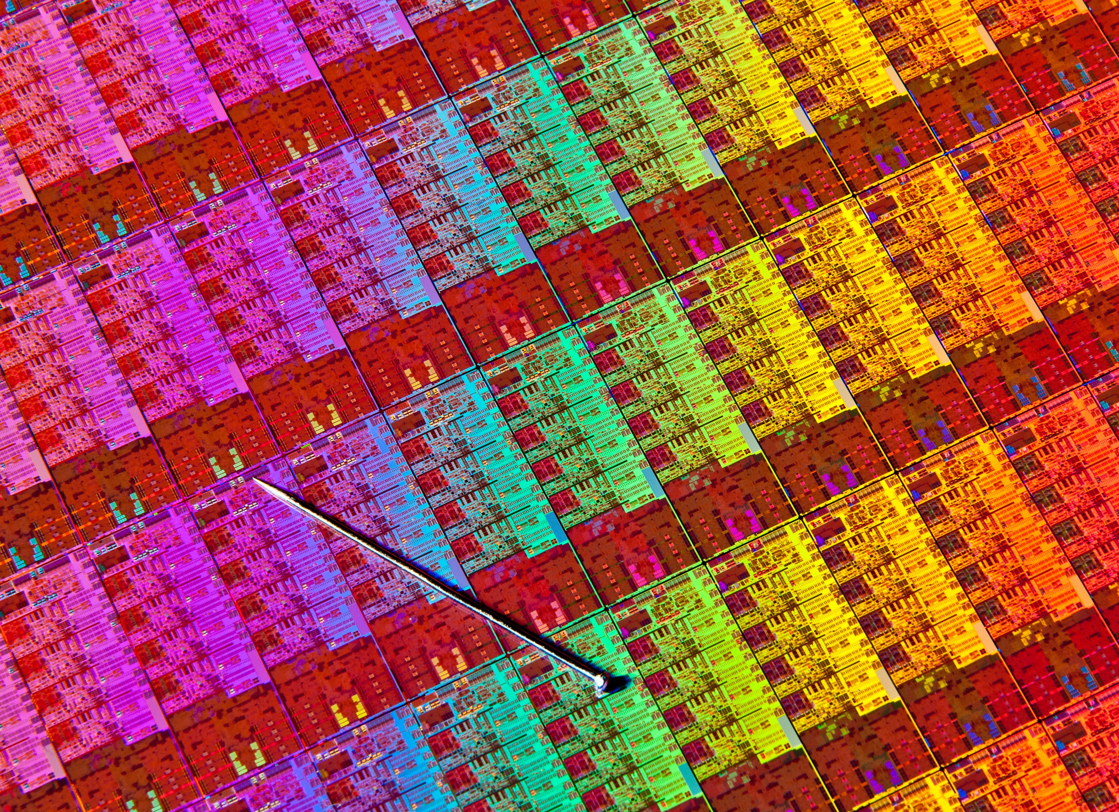 An Intel Haswell wafer with a pin sitting on it.